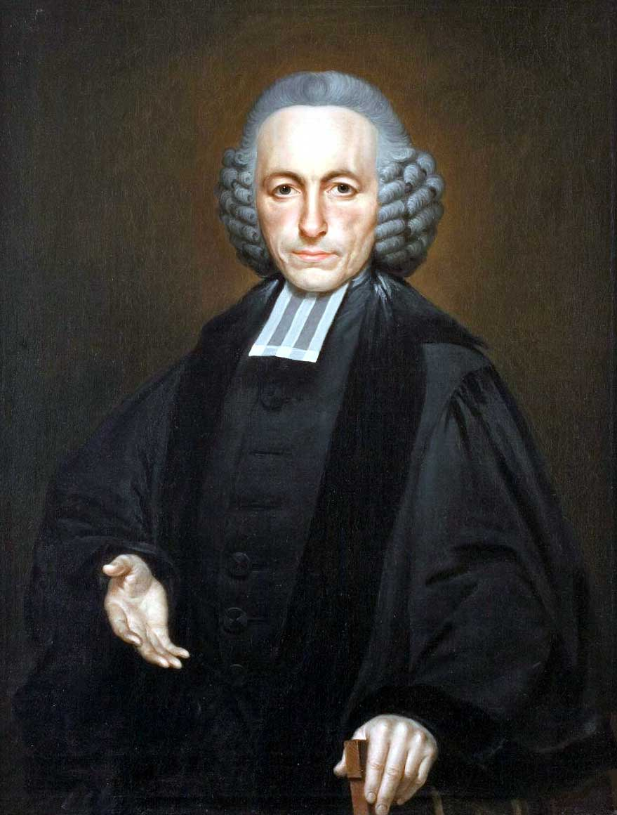 Jona Willem de Water (1740-1822 Dutch Reformed theologian